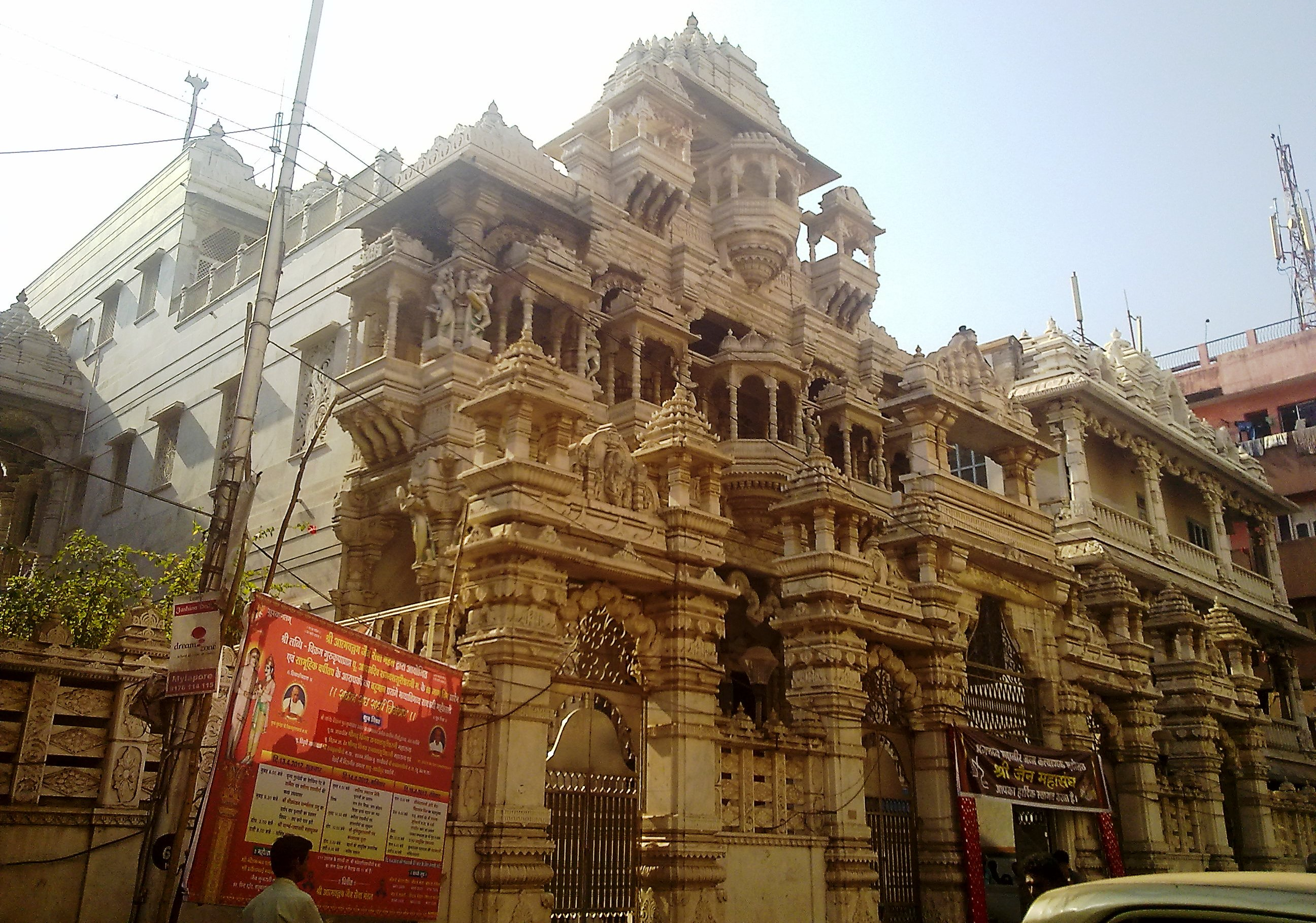 Jain Mandir,(BHAGWAN SHRI PARSVANATHJI) Mint Street, Chennai